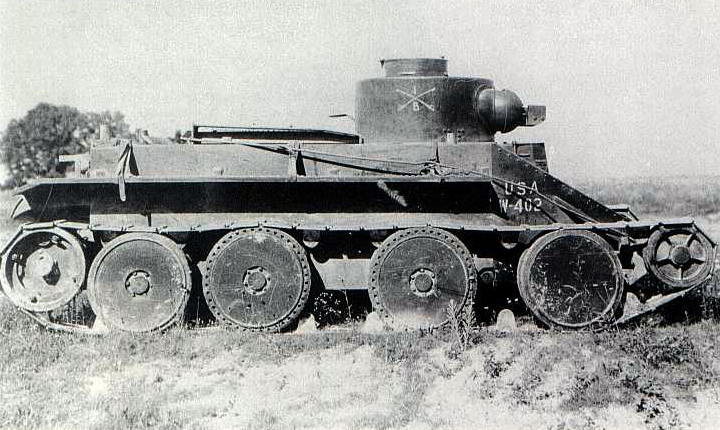 Combat Car T1 (Christie M1931), still retaining 37 mm gun mount of an infantry verison, during tests at Fort Knox